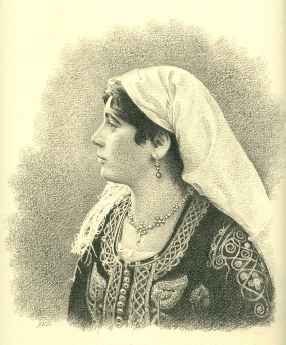 A portrait photography of an algerian woman in traditional costume "Karakou".